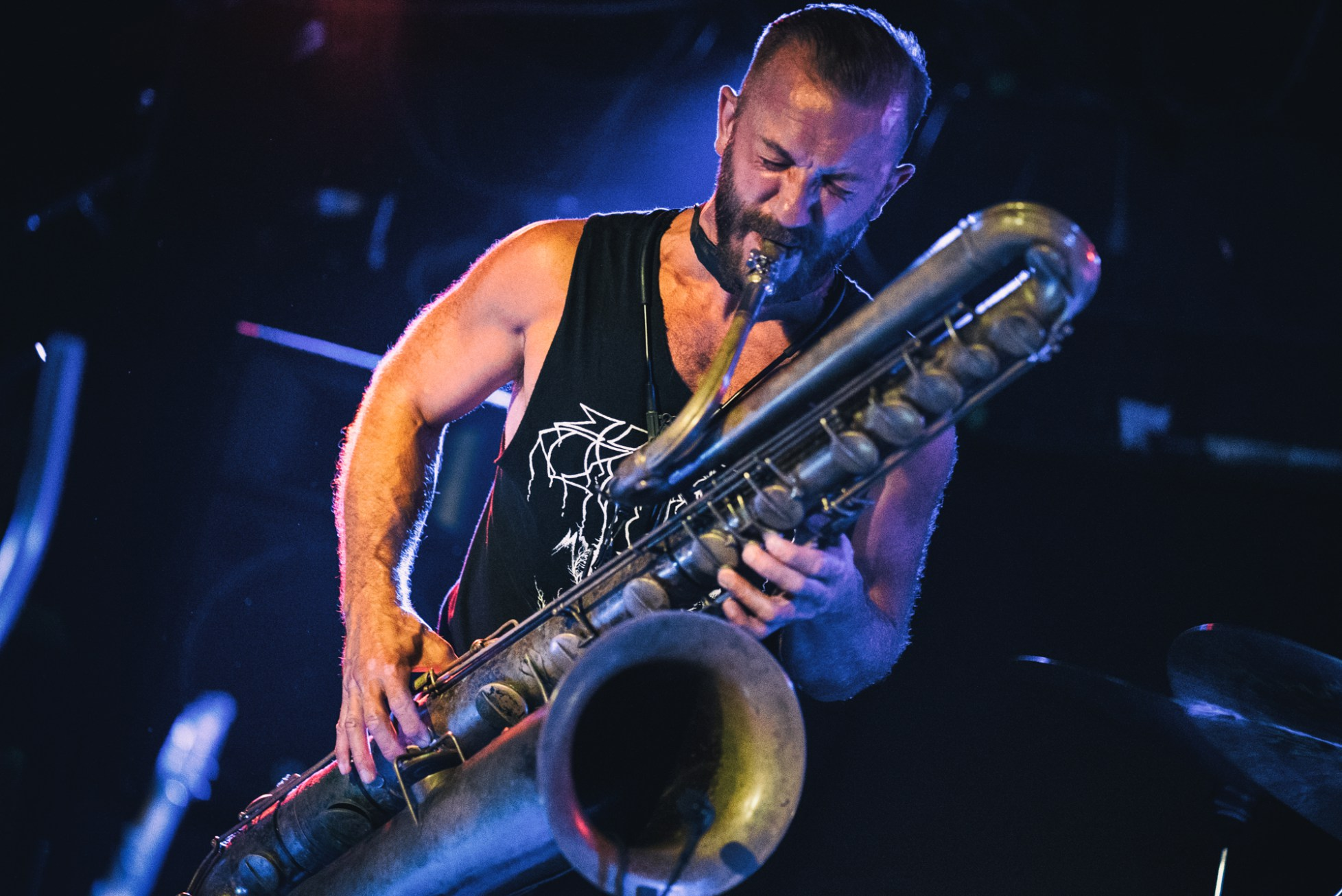 Colin Stetson with Ex Eye @ Strange Matter. Photo by Craig Zirpolo.